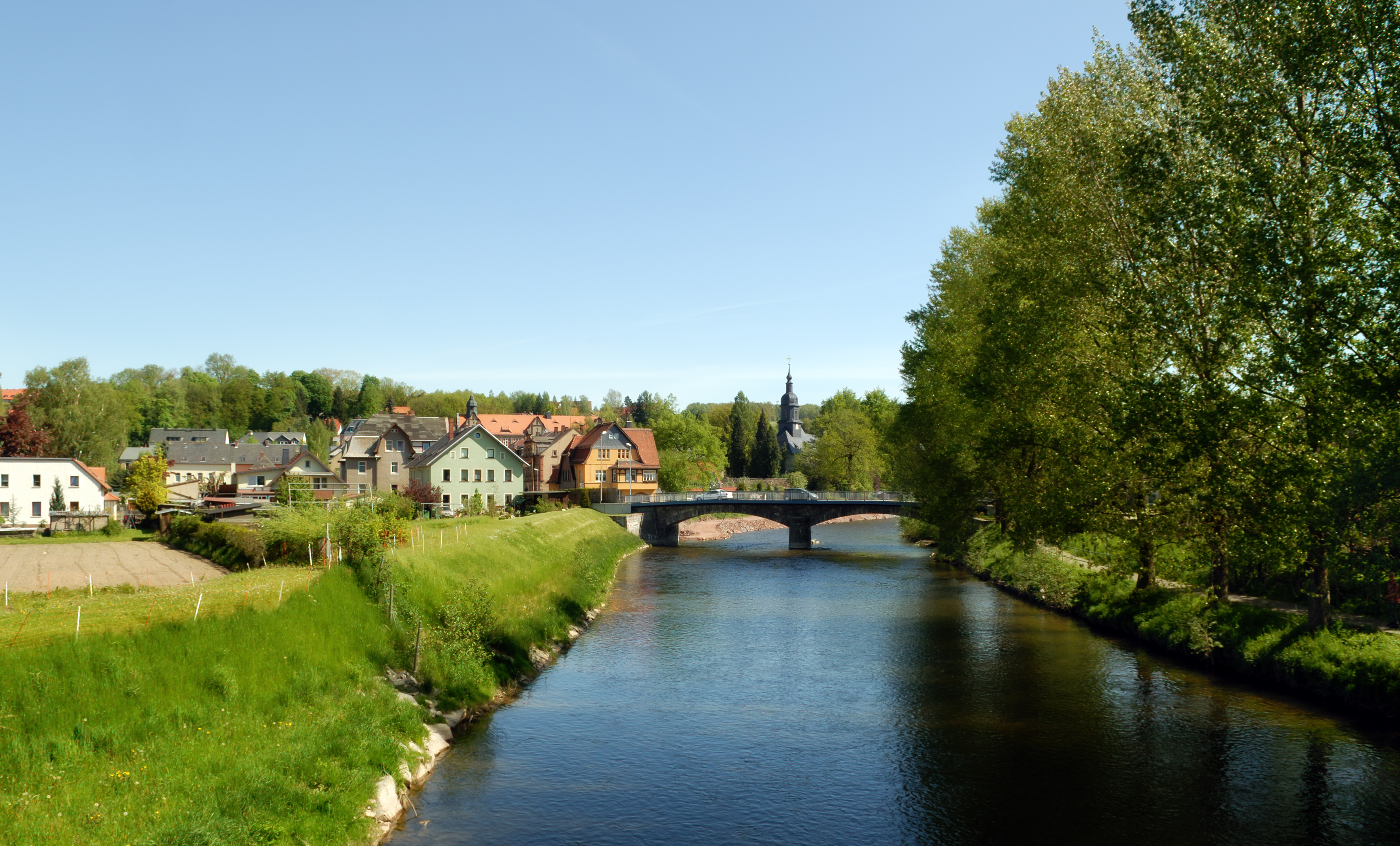 This image shows the river Flöha in the town Flöha, Germany. In the background there is a bridge with the Augustusburg street and the George church.